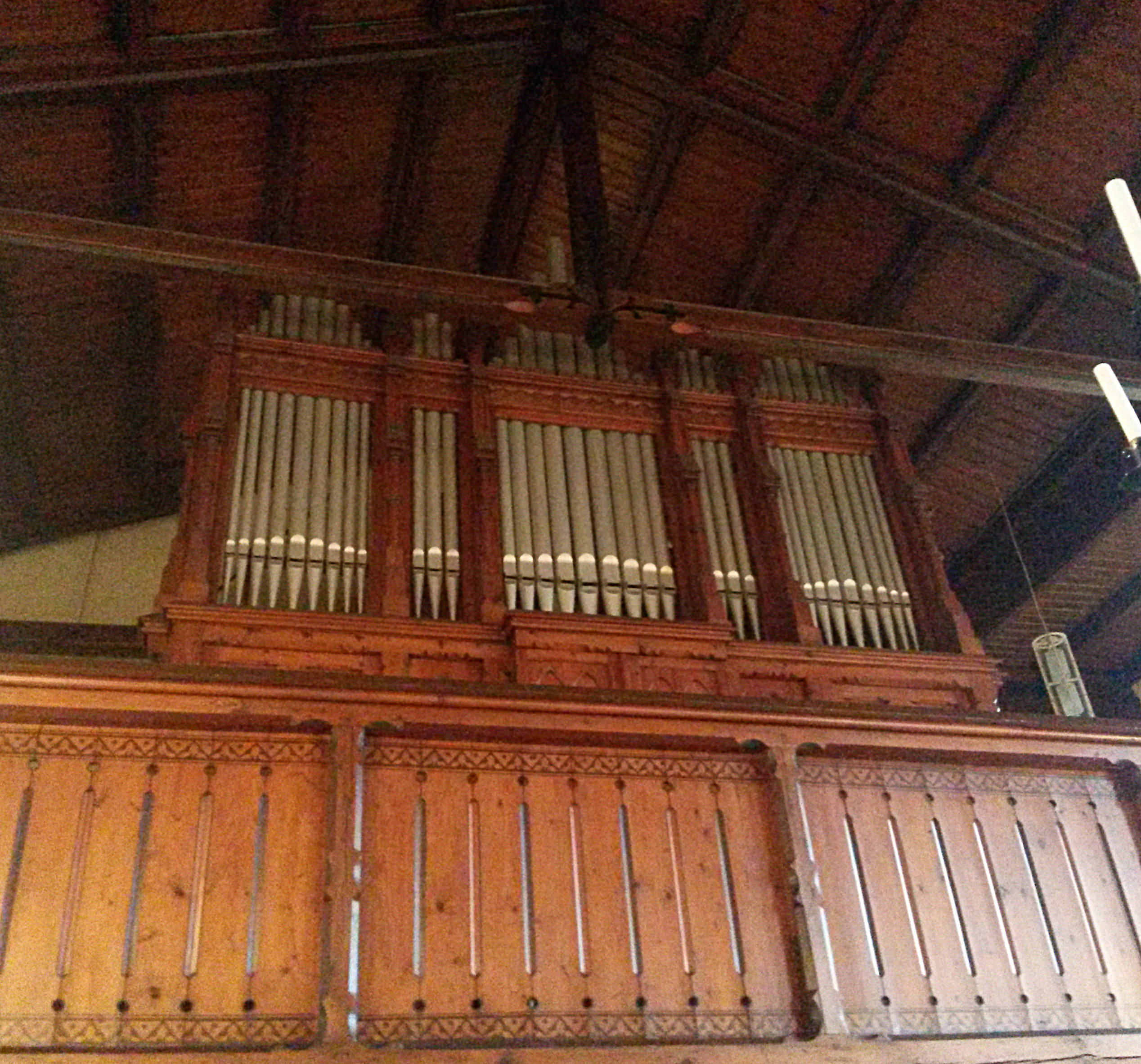 Organ of Petrus-Kirche (Ostrhauderfehn), Germany